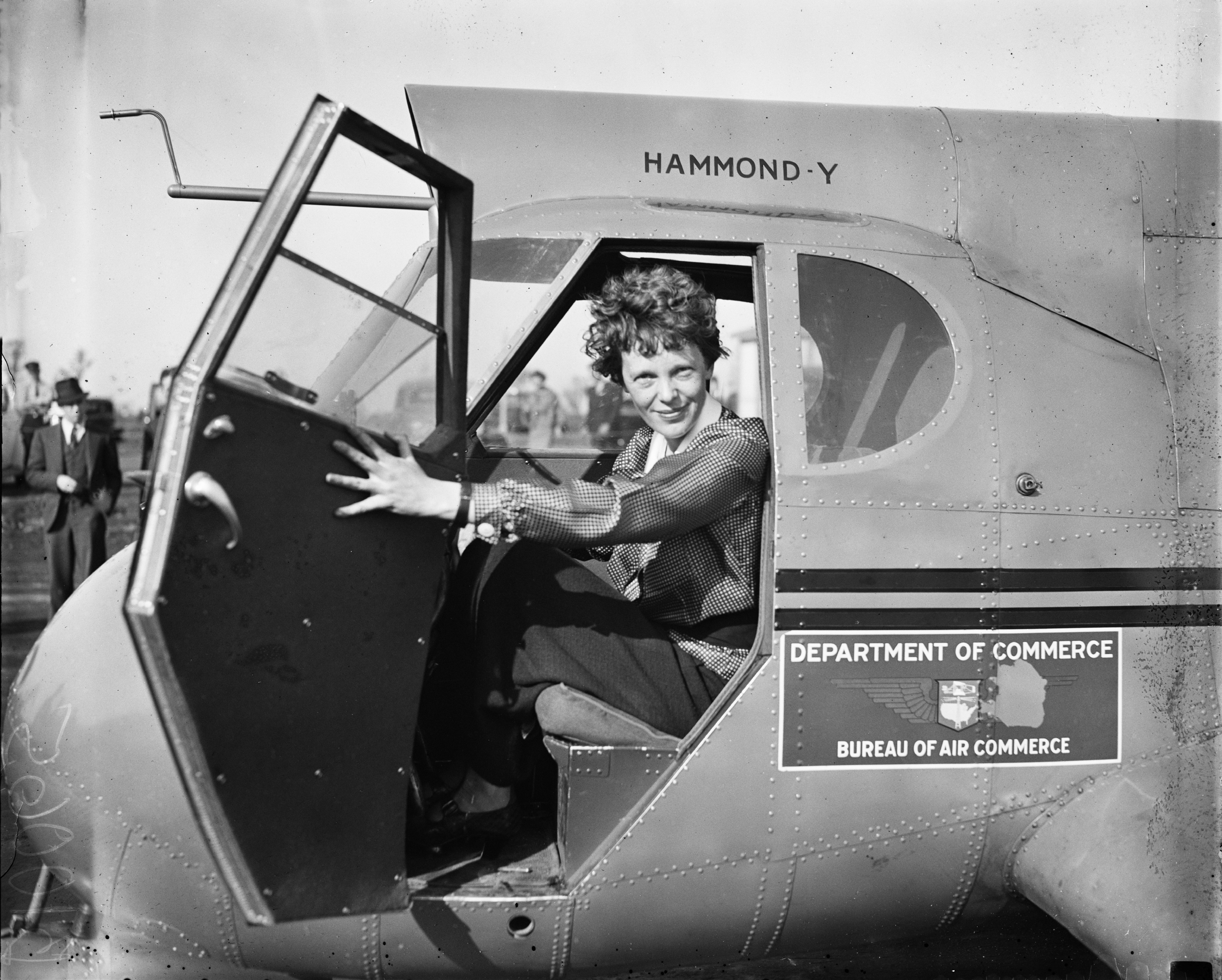 [Amelia Earhart in airplane]